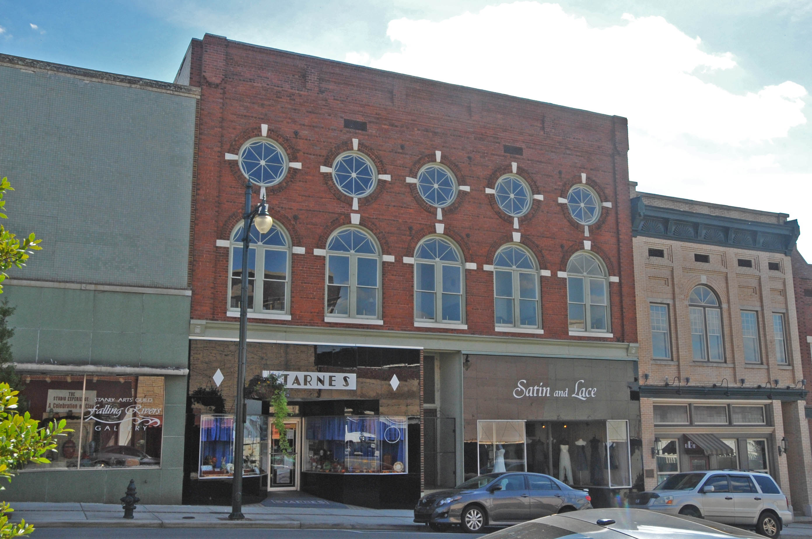 OPERA HOUSE/STARNES JEWELERS; 1907; CONSIDERED THE MOST DISTINGUISHED BUILDING IN ALBEMARLE; THE OPERA HOUSE OCCUPIED THE UPPER FLOORS AND STARNES JEWELERS OCCUPIED THE LOWER FLOOR SINCE 1908